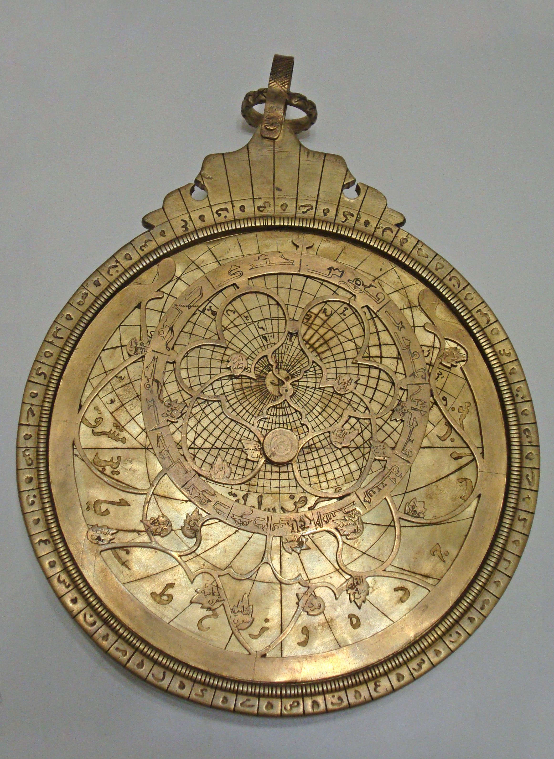 Modern Persian astrolabe (Object was made by image owner, Jacopo188)